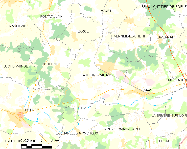 Map of French municipality